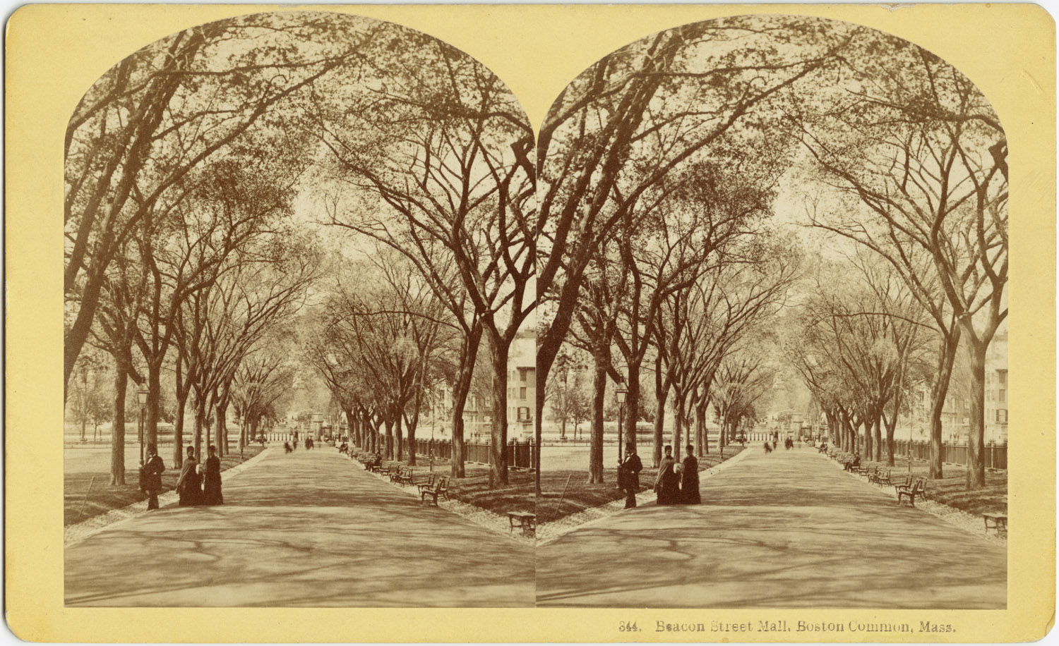 Title: Beacon Street Mall, Boston Common, Mass. Local Subject: Parks Subject: Boston (Mass.) Boston Common (Boston, Mass.) Place of Publication: Littleton, N.H. Publisher: B. W. Kilburn Format: Sterographs BPL Department: Print